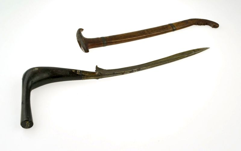 Rencong dagger from Aceh with horn hilt and wooden scabbard